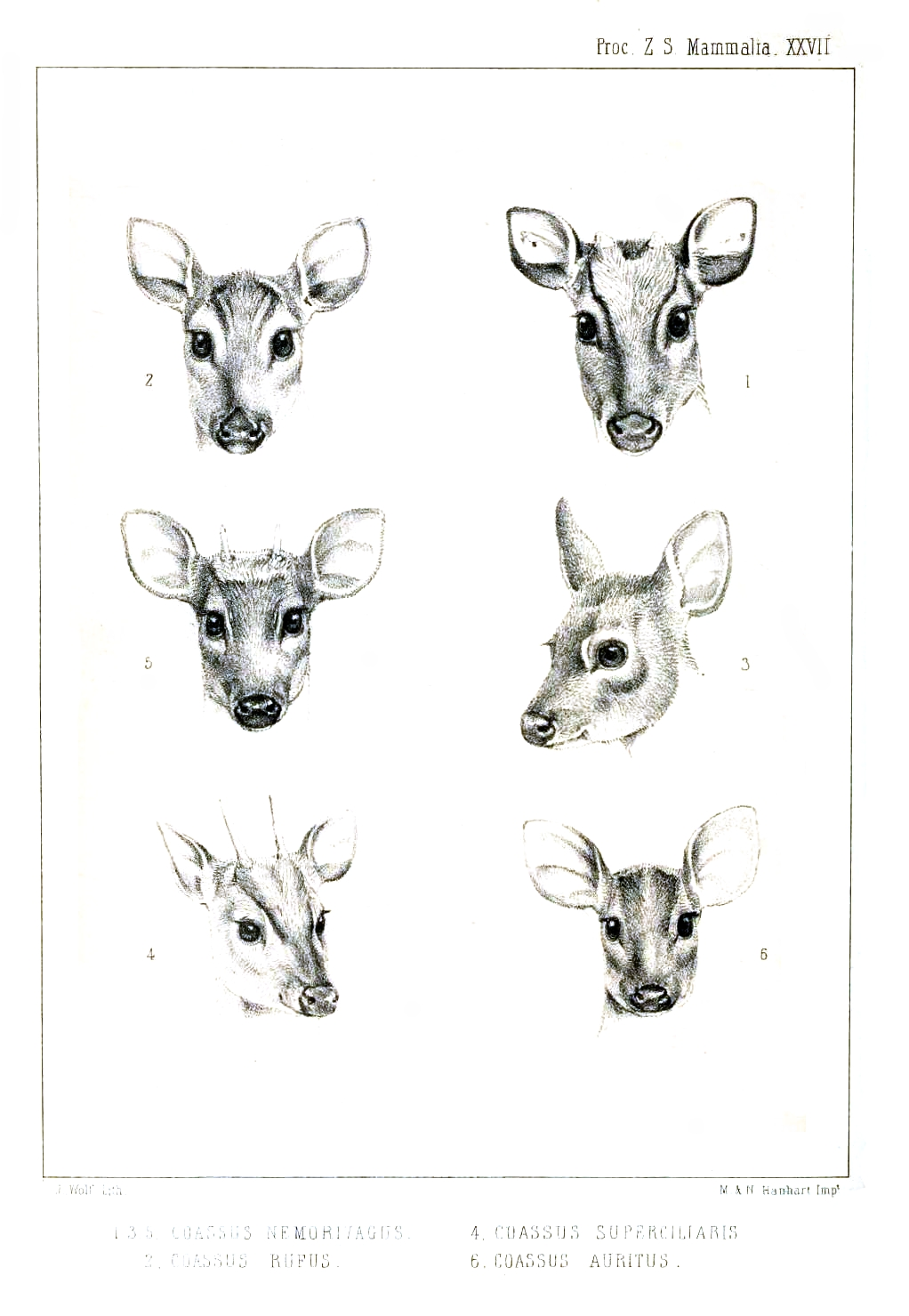 1,3,5 Coassus nemorivagus = Amazonian Brown Brocket (Mazama nemorivaga) 4 Coassus superciliaris = Gray Brocket (Mazama gouazoubira) (see UICN) 2 Coassus rufus = Red Brocket (Mazama americana rufa) (see UICN) 6 Coassus auritus = Gray Brocket (Mazama gouazoubira) (see UICN)